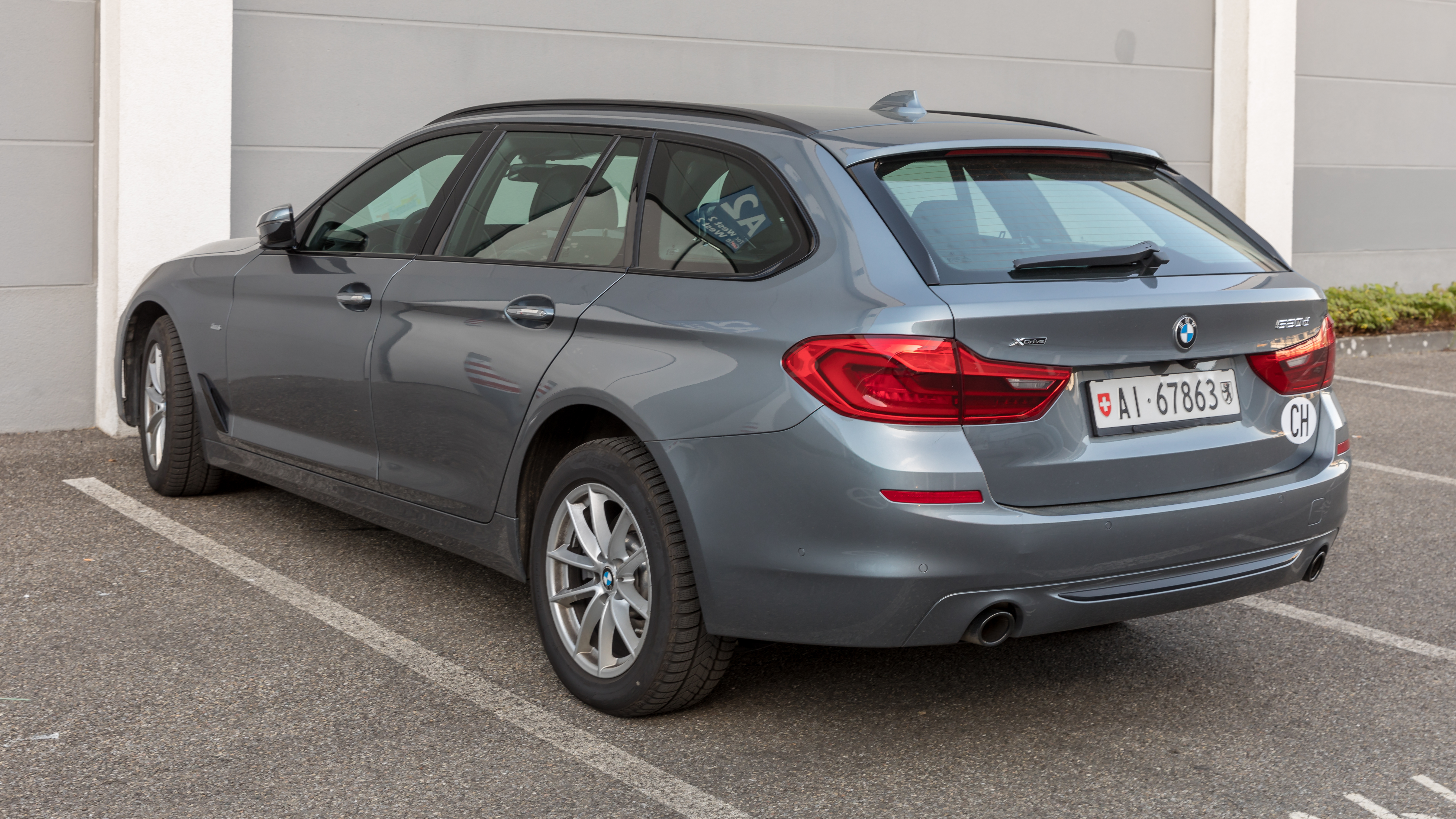 BMW 520xd in Friedrichshafen